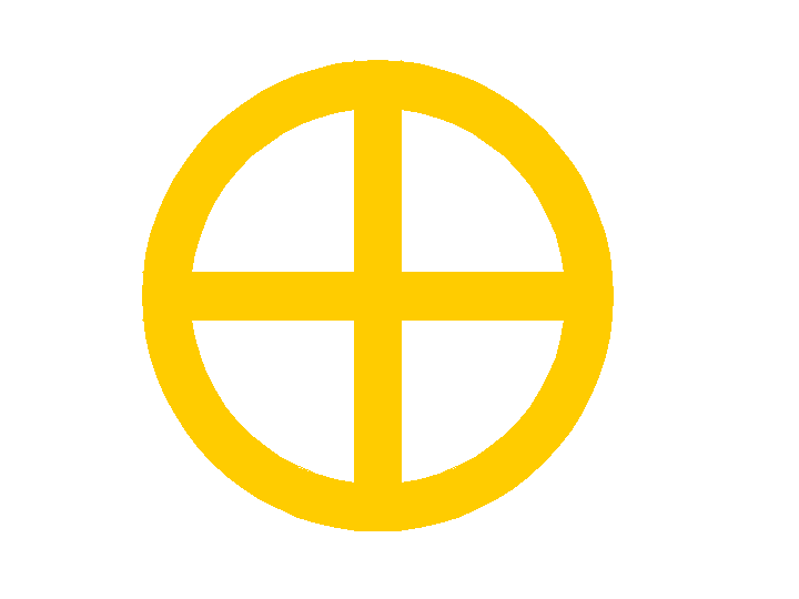 Mark of German 13 Panzer Division